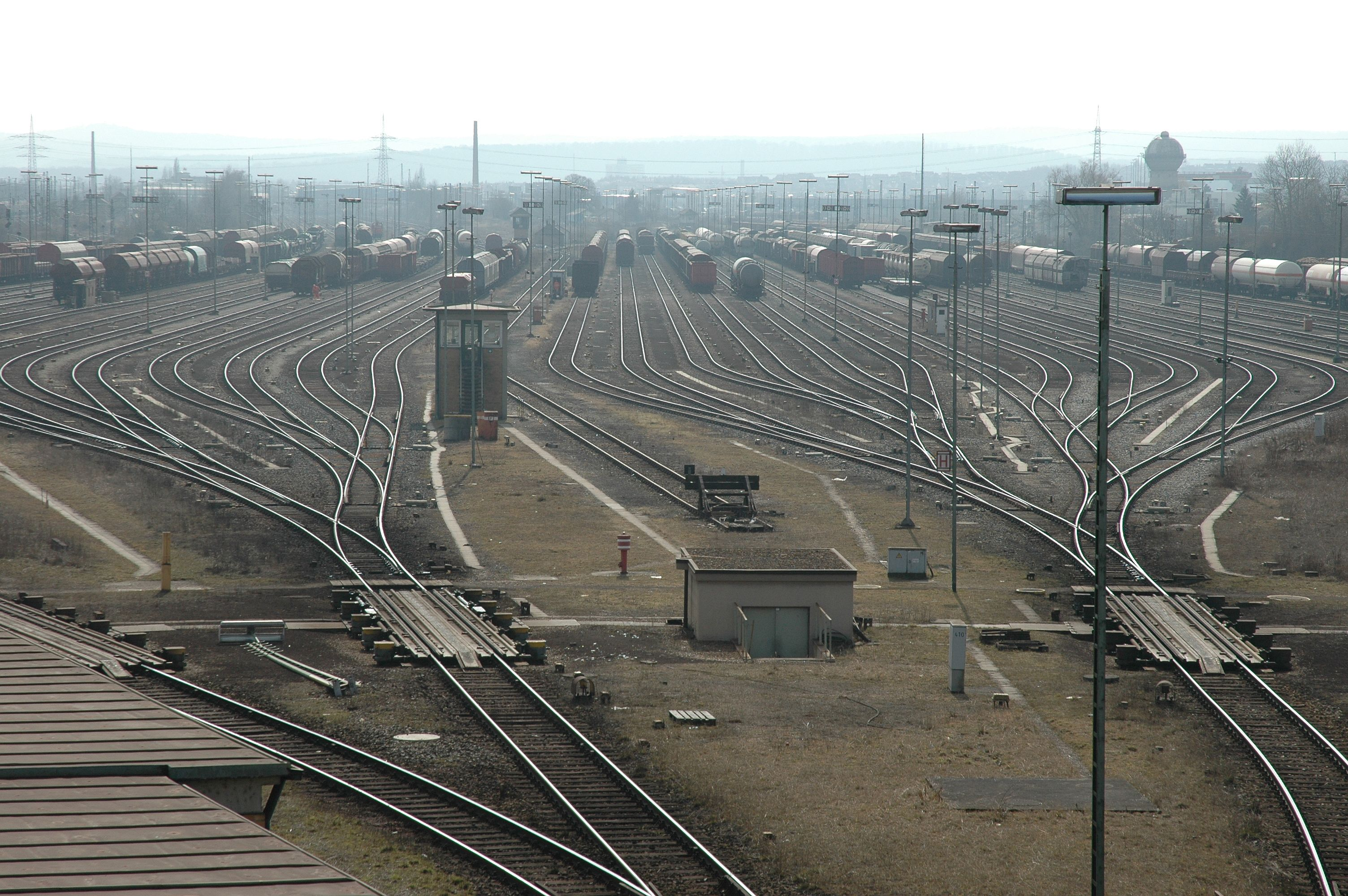 classification bowl of Kornwestheim classification yard (near Stuttgart, Germany)